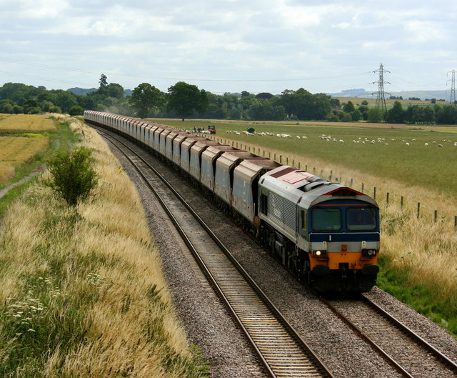 Stone train returning empty at Patney Bridge. See 891113